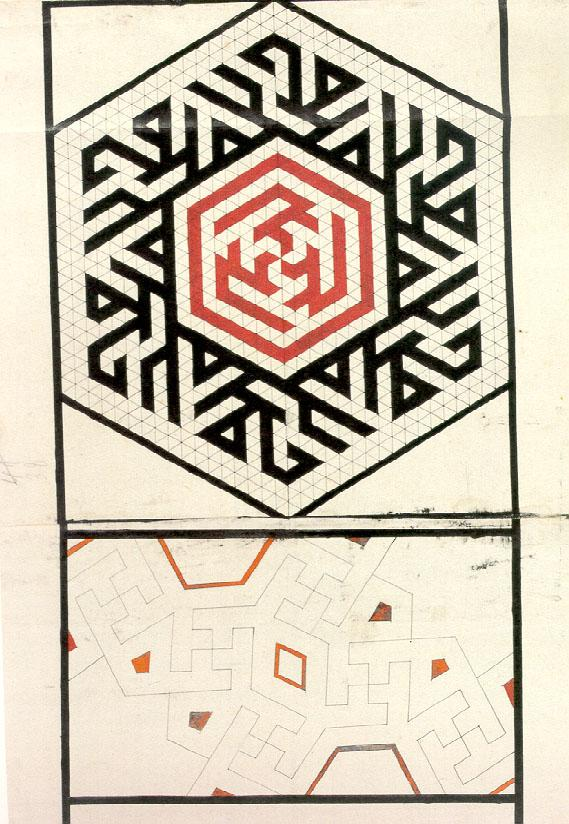 Panel from the Topkapi Scroll. Bottom, quarter repeat unit of a pattern with swastika motifs. Top, hexagonal panel with kufic inscriptions.